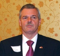 Winthrop Paul Rockefeller, former Lt. Governor of Arkansas.